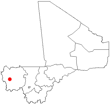 Bafoulabe, Mali Location Map.